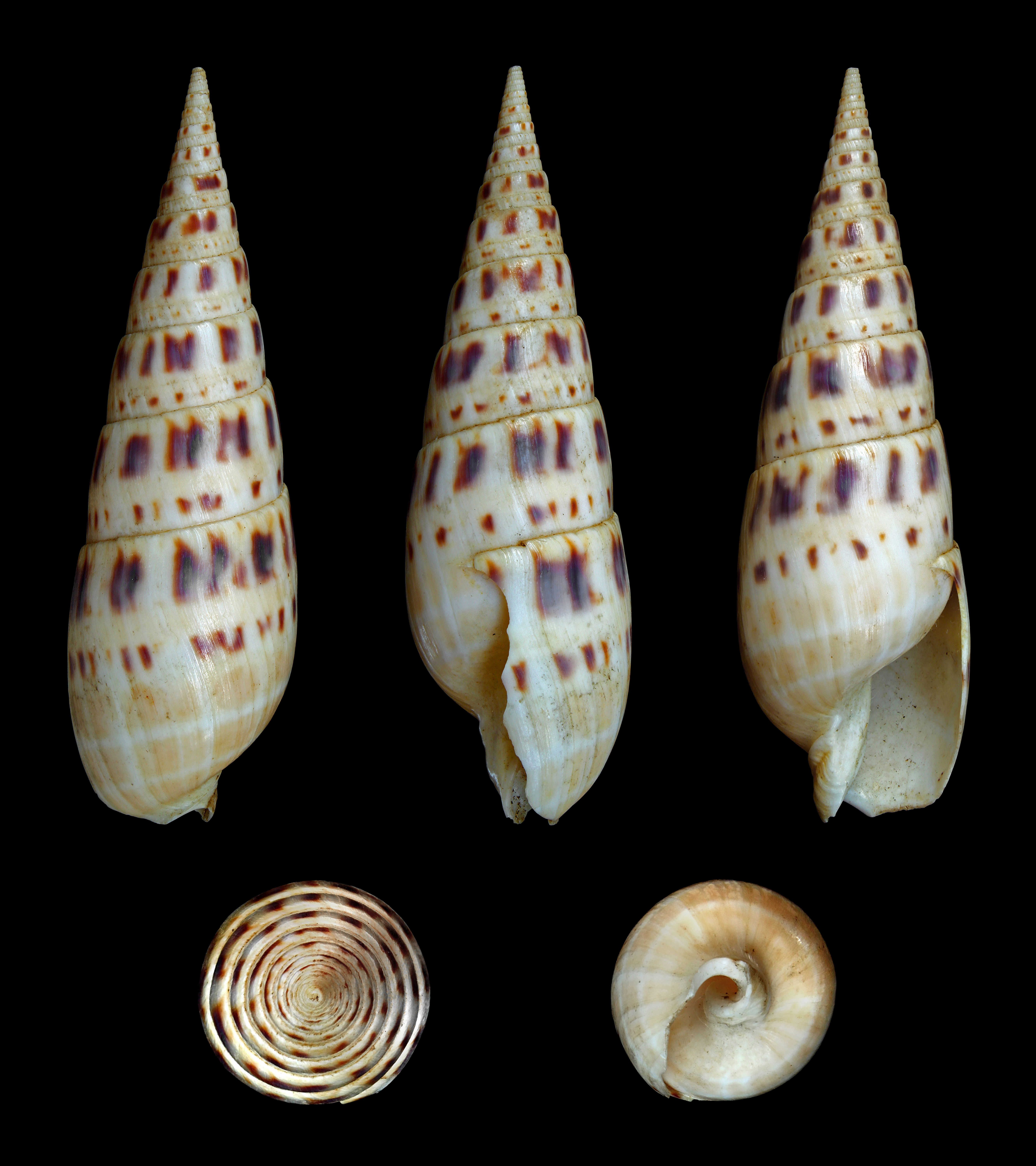 Spotted Auger; Length 9.5 cm; Originating from the Indo-Pacific; Shell of own collection, therefore not geocoded. Dorsal, lateral (right side), ventral, back, and front view.